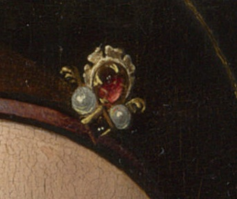 Detail of the Virgin and Child triptych